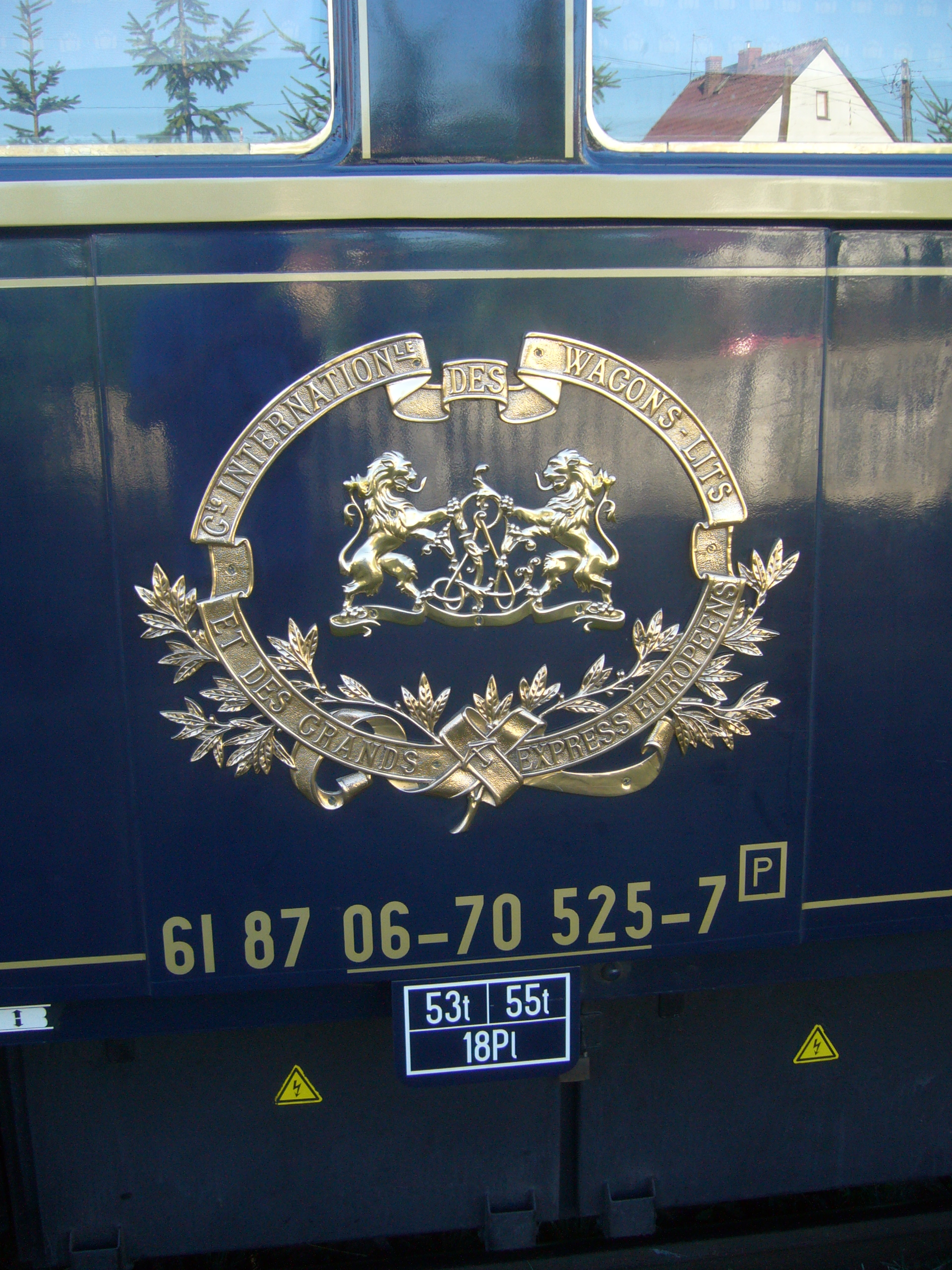 Venice-Simplon Orient Express in Poland, Mieroszów (railway line 291, route Venice – Wien – Banská Bystrica – Kraków – Warszawa – Malbork – Wrocław – Prague). Car No. 3525 began its working life on the Pyrénées-Côte ď Argent Express to Biarritz.